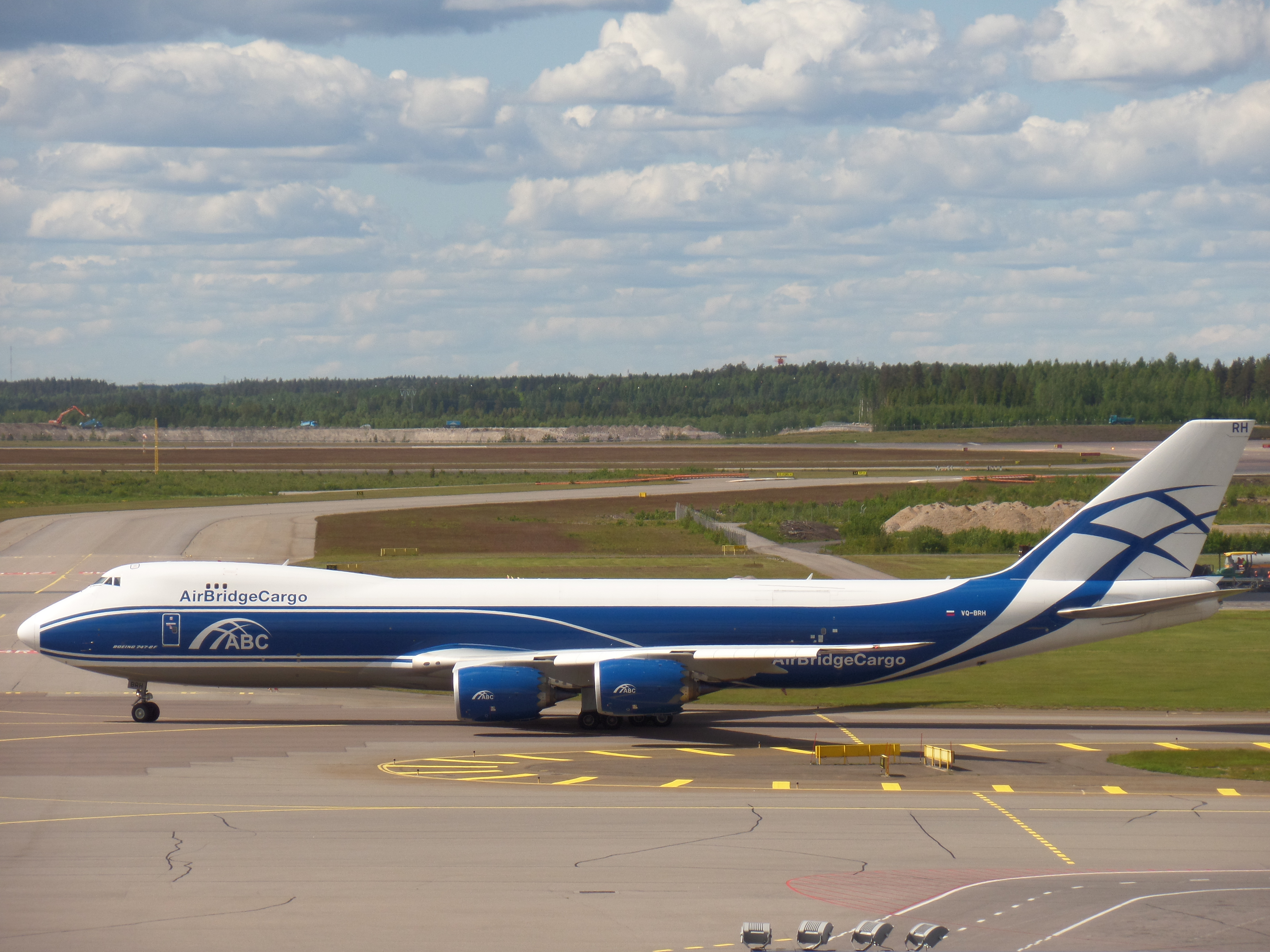 AirBridgeCargo Airlines Boeing 747-8HVF VQ-BRH at Helsinki-Vantaa Airport on 5 June, 2015.